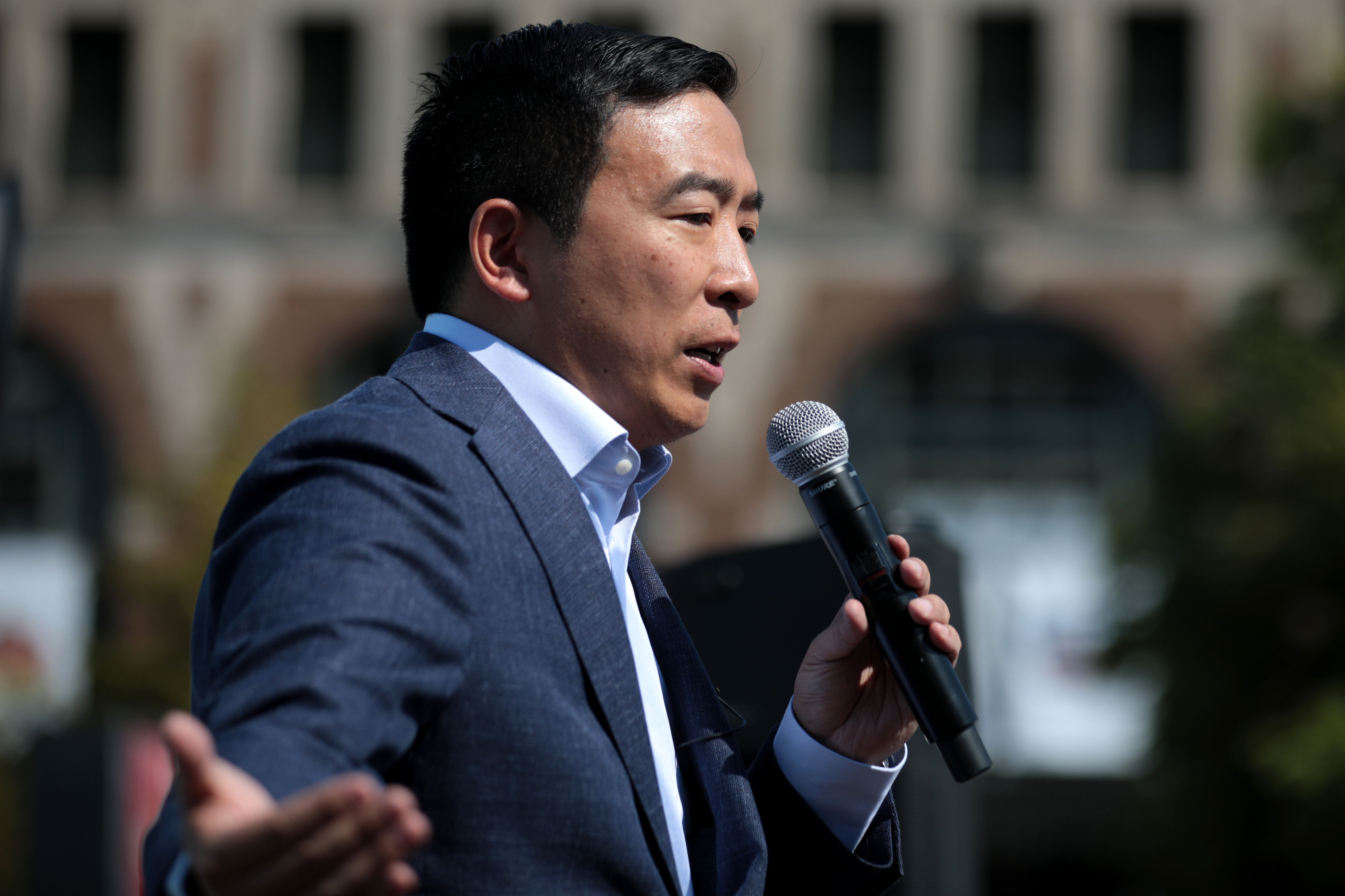 Andrew Yang speaking with supporters at the Des Moines Register's Political Soapbox at the 2019 Iowa State Fair in Des Moines, Iowa.